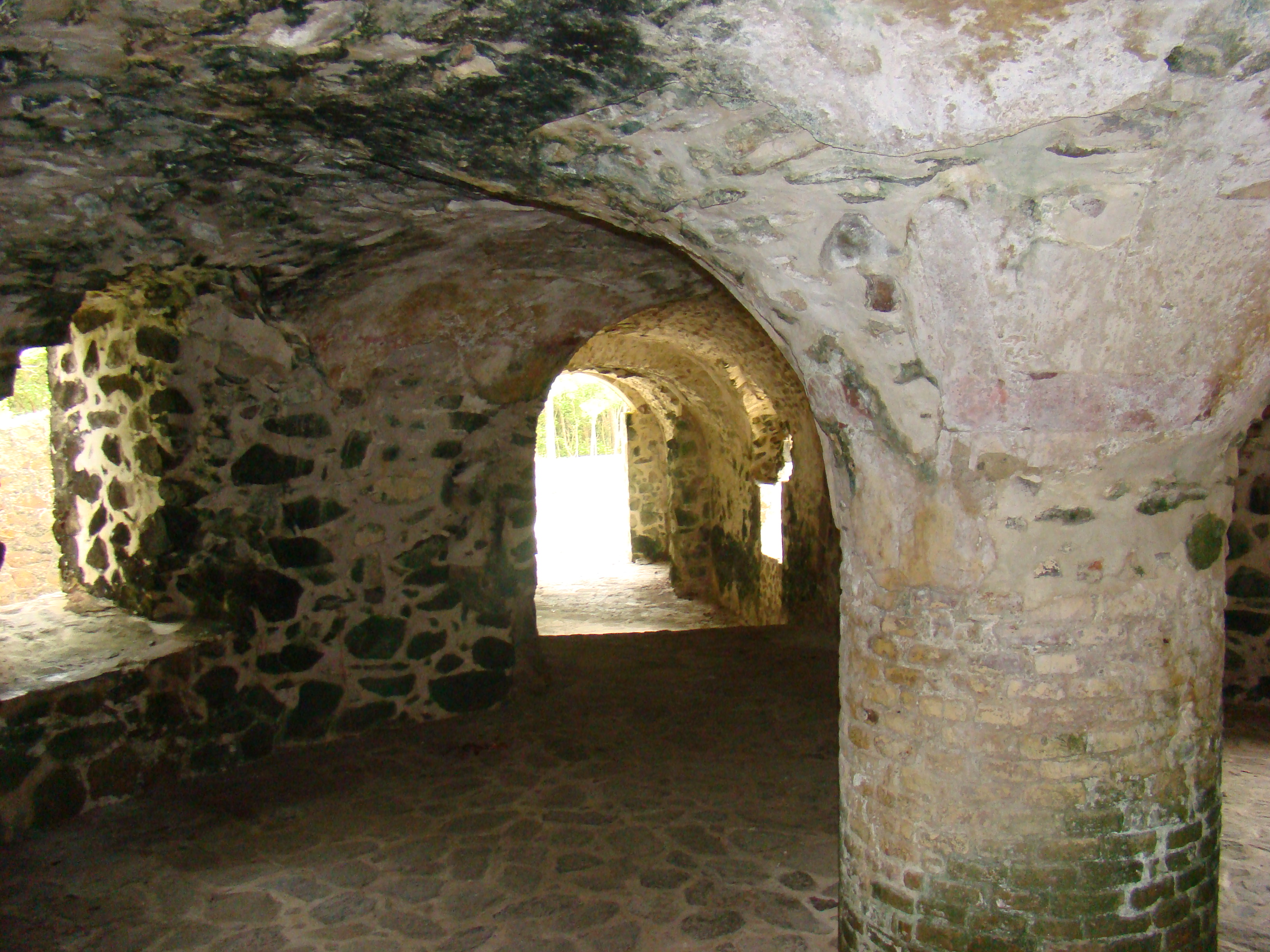 Interior view of Catherineberg Sugar Mill Ruins located in the Virgin Island National Park on Saint John, U.S. Virgin Islands. The ruins are an example of an 18th century sugar and rum factory. This view shows the support column and other architectural details. In the 1733 slave revolt, Catherineberg property was the headquarters of the Amina warriors.